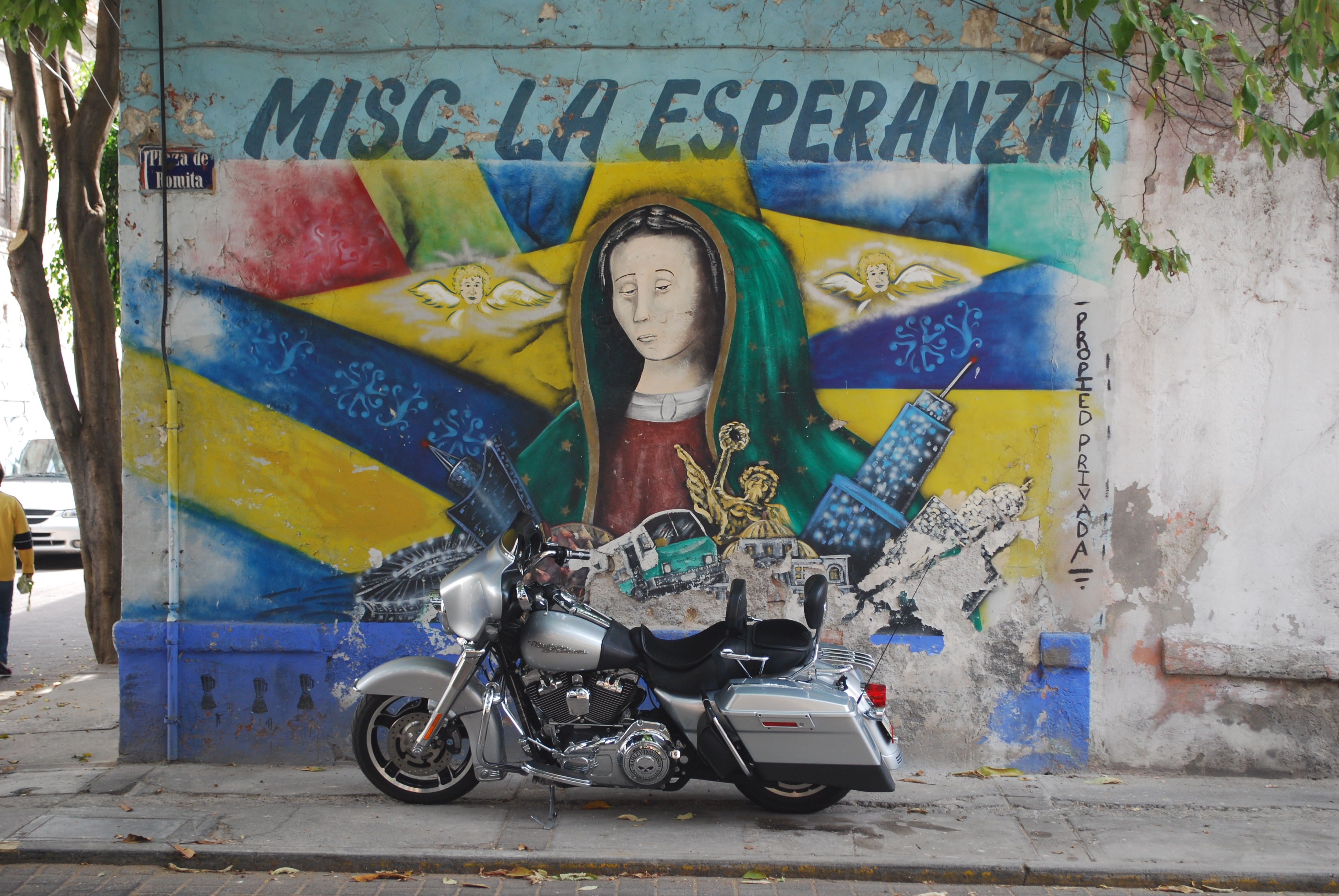 Mural facing Plaza de Romita by unknown artist with the Virgin of Guadalupe with a Harley Davidson motorcycle in the La Romita section of Colonia Roma, Mexico City